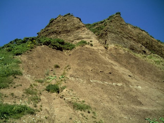 Budleigh Salterton Cliff